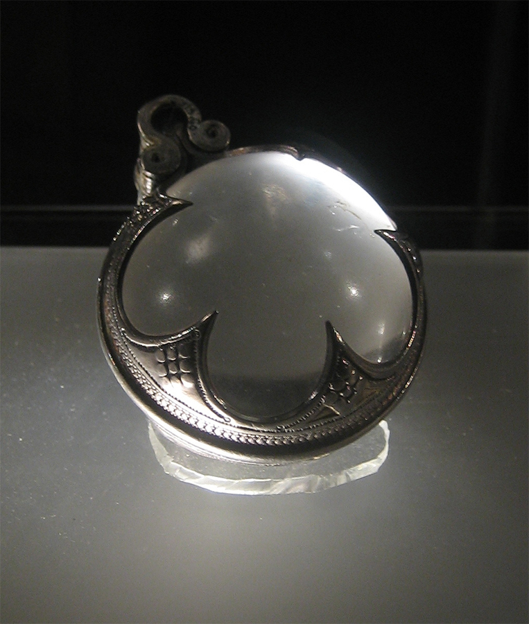 Viking crystal ball. Historiska museet, Stockholm.